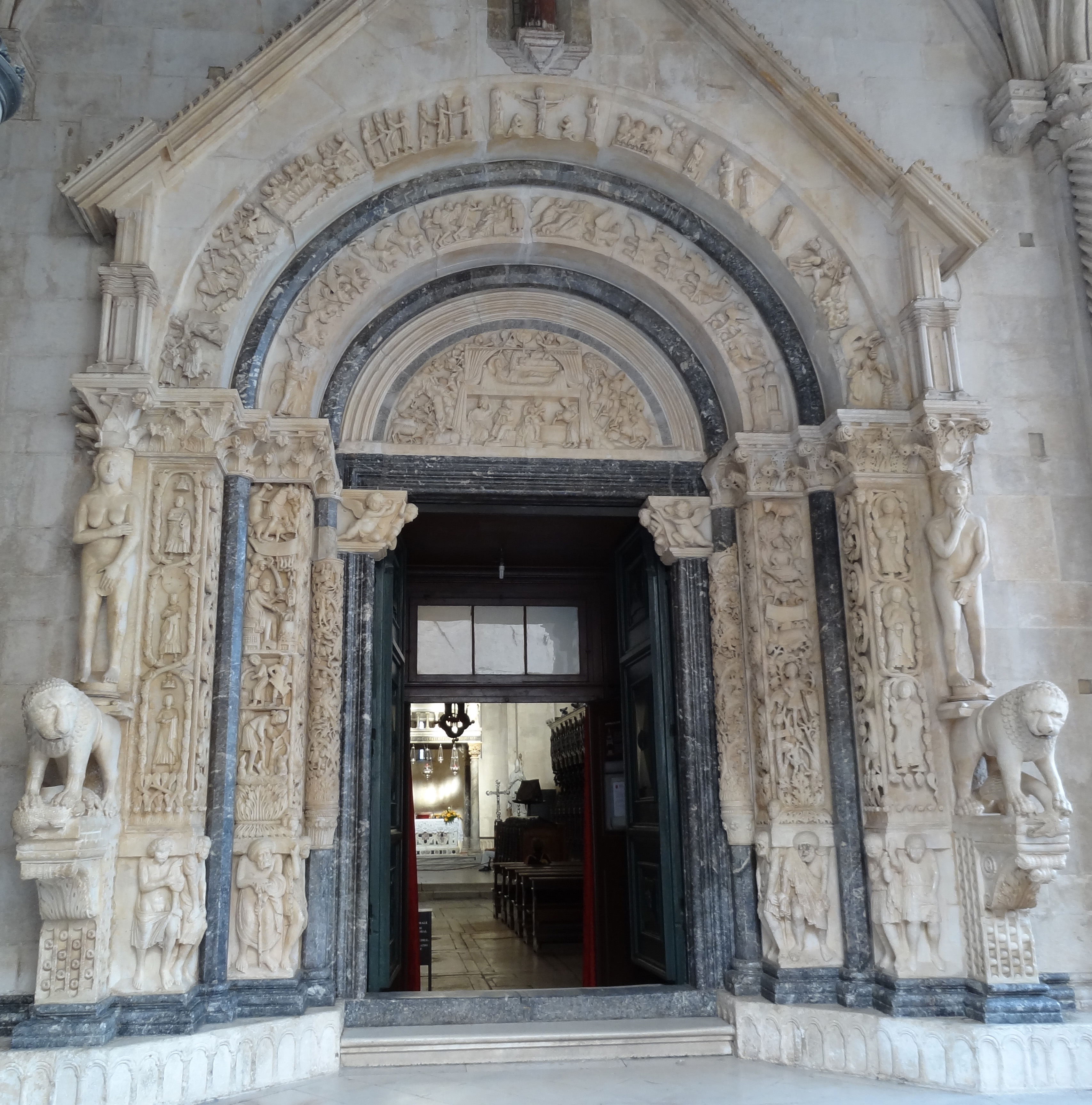 Trogir cathedral, Radovan's portal